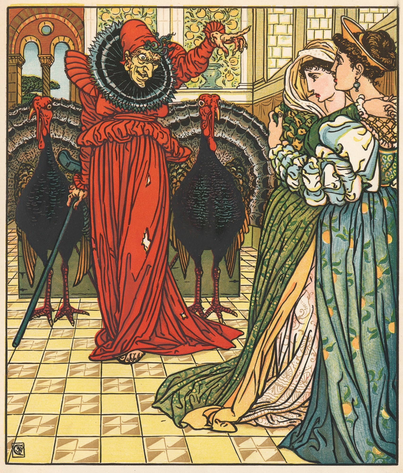 "Appearance of the Fairy of the Desert." An illustration of the fairytale "The Yellow Dwarf", published in at least two storybooks, as an unnamed illustration in The Yellow Dwarf from 1875 (link to page), and Aladdin's Picture Book (1876 – source) (link to PDF edition). The name of the illustration can be found on page 11 of the PDF file, while the illustration appears on page 57.